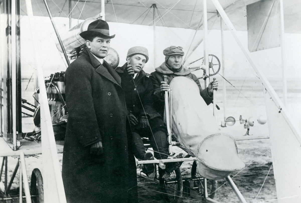 Transcontinental flight pilot R.G. Fowler being met at Moncrief Park in Jacksonville after landing.